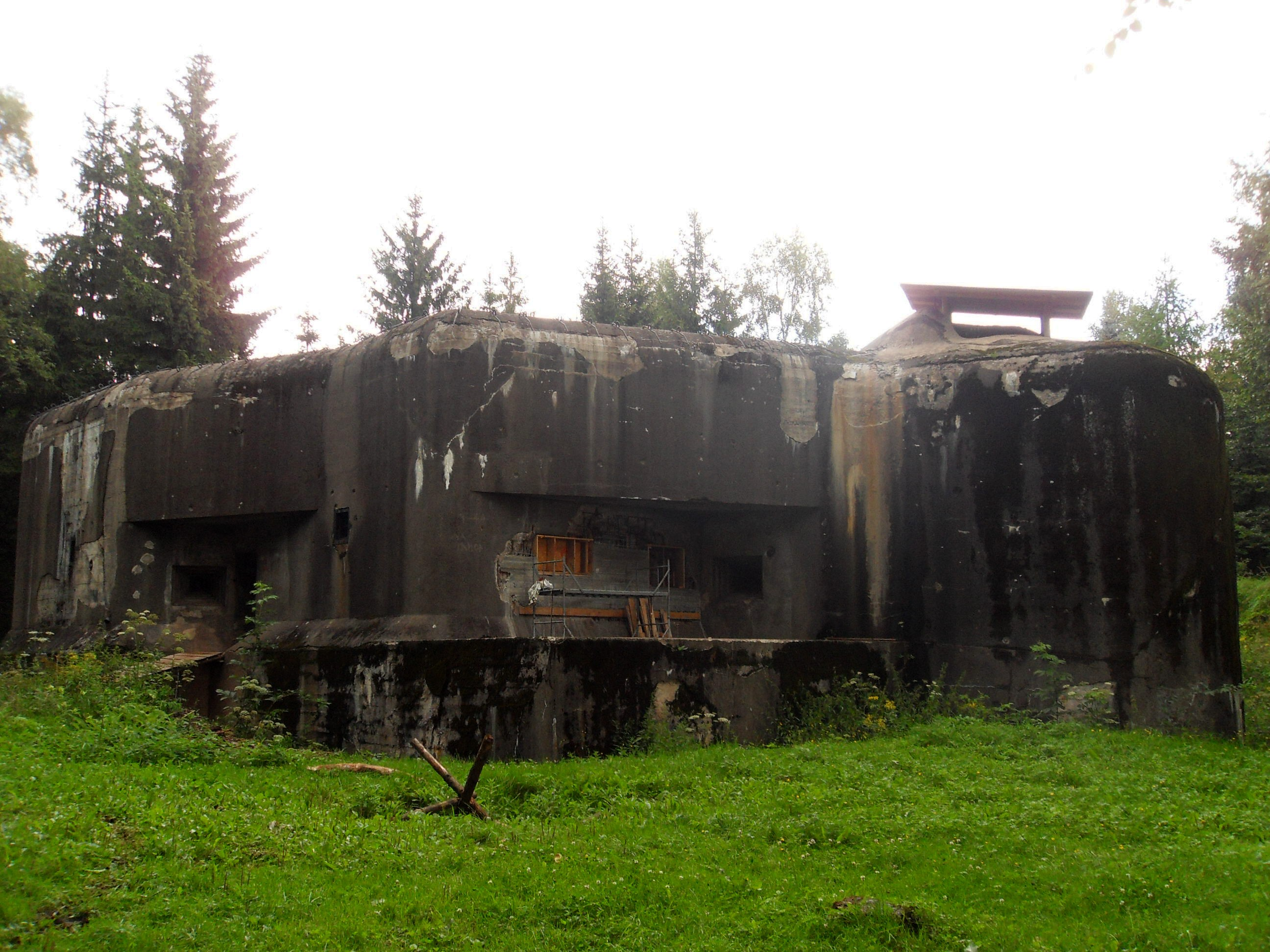 T-S 44 Na pahorku infantry casemate, Trutnov District, Czech Republic